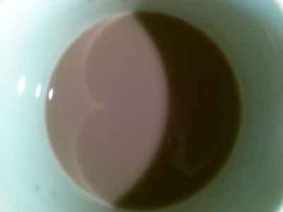 Photograph of cardioid curve seen in the coffee glass.